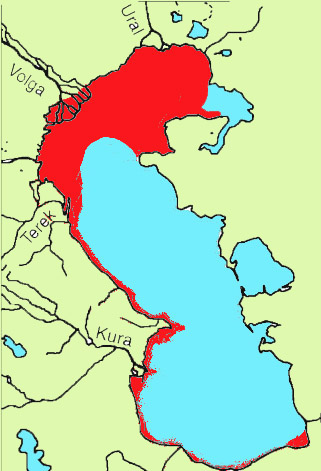 The range of the Caspian tadpole goby (Benthophilus macrocephalus)